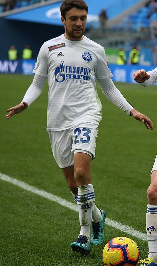 Sergei Breyev with FC Orenburg in a game against FC Zenit Saint Petersburg.